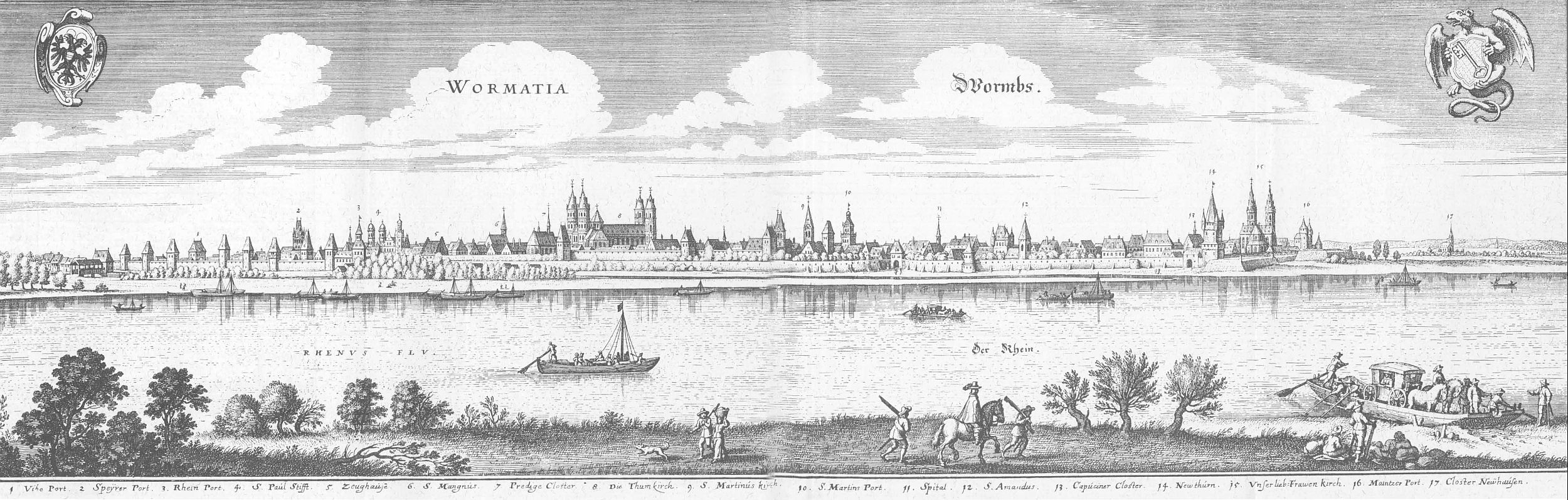 This is a scan of the historical document: Title: Worms - Topographia Hassiae language: german